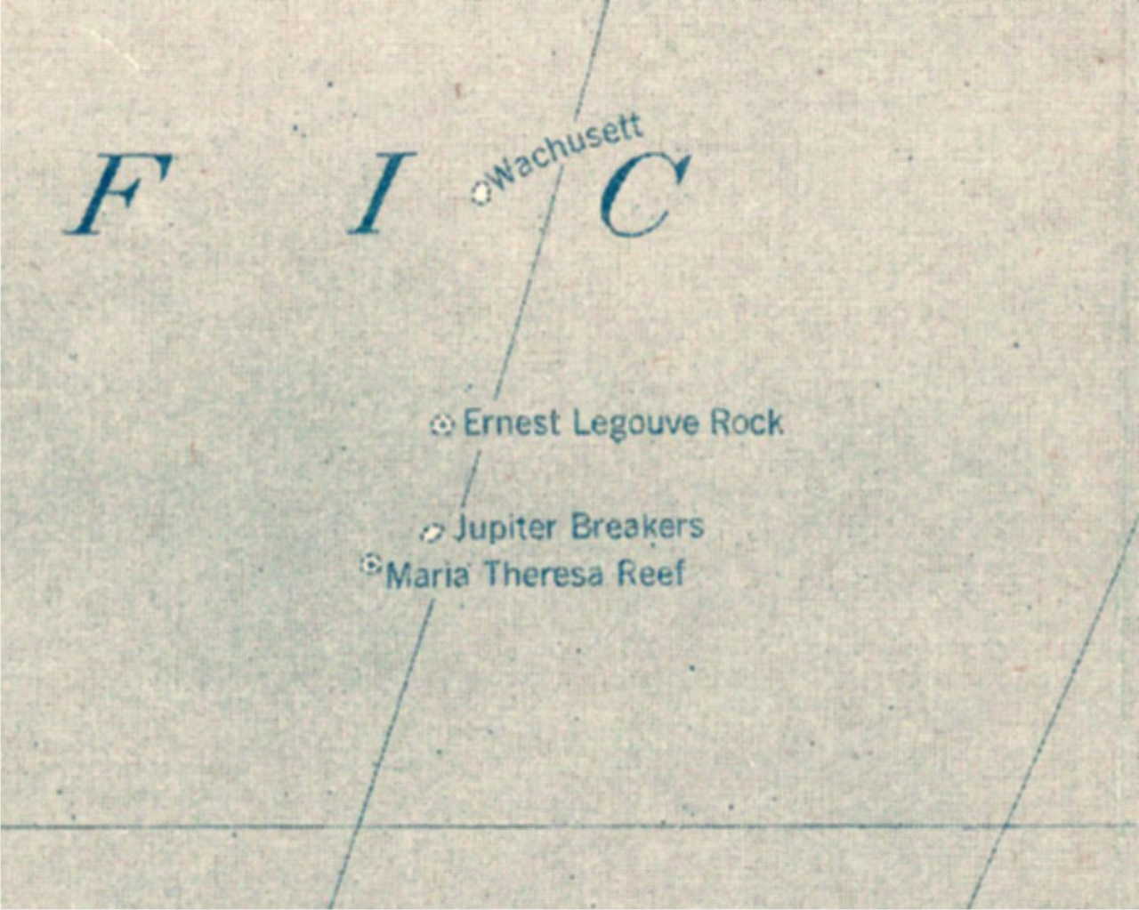 Wachusett Bank, Maria Theresa Reef, Ernest Legouve Rock, Jupiter Breakers Portion of map "Sovereignty and Mandate Boundary Lines in 1921 of the Islands of the Pacific"